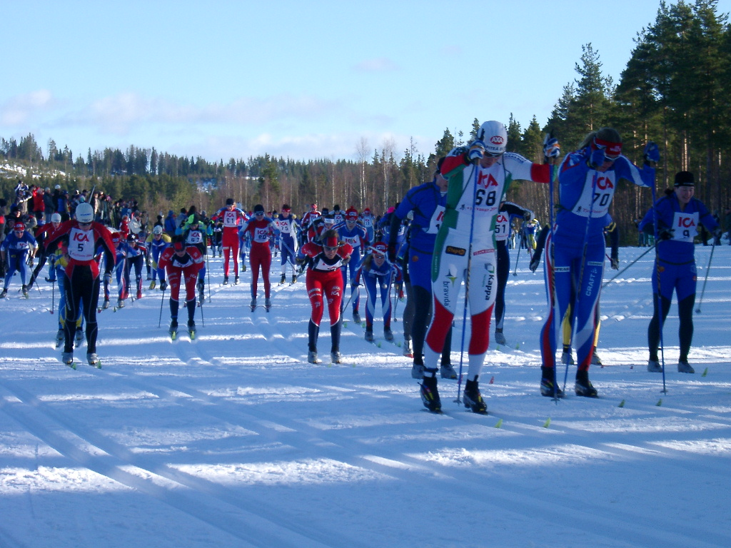 The first competitors leave Oxberg at the start of the 2006 Tjejvasa (Vasaloppet) - a 30km cross-country skiing race for women held annually in Sweden